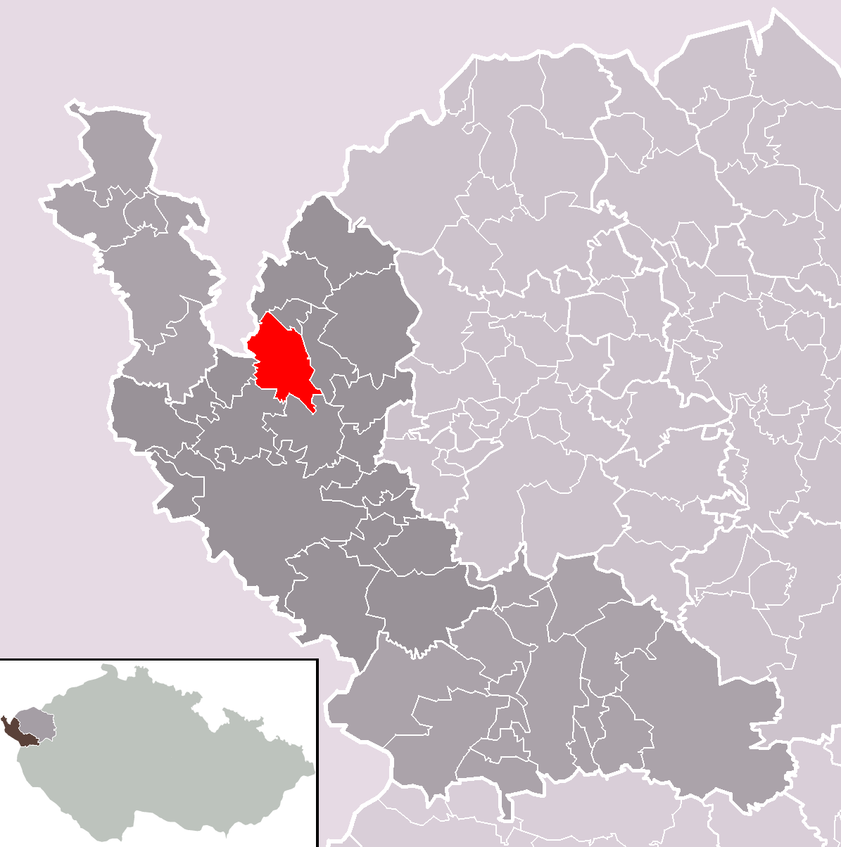 Location of Skalná town within Cheb District and administrative area of Cheb as a Municipality with Extended Competence.